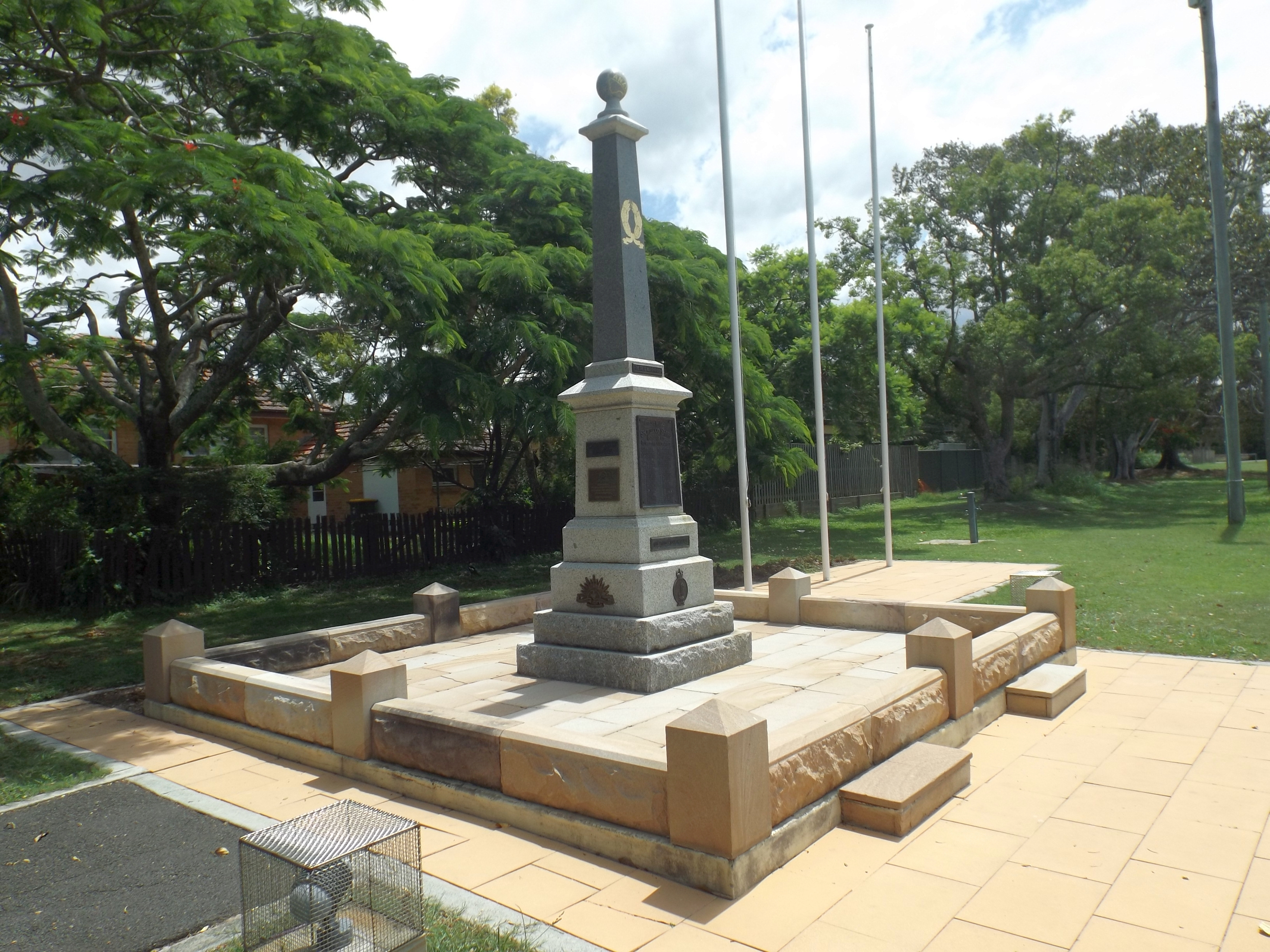 Photo of the war memorial in Graceville Memorial Park at Graceville, Brisbane, Queensland, Australia. It was unveiled on 26.11.1920.